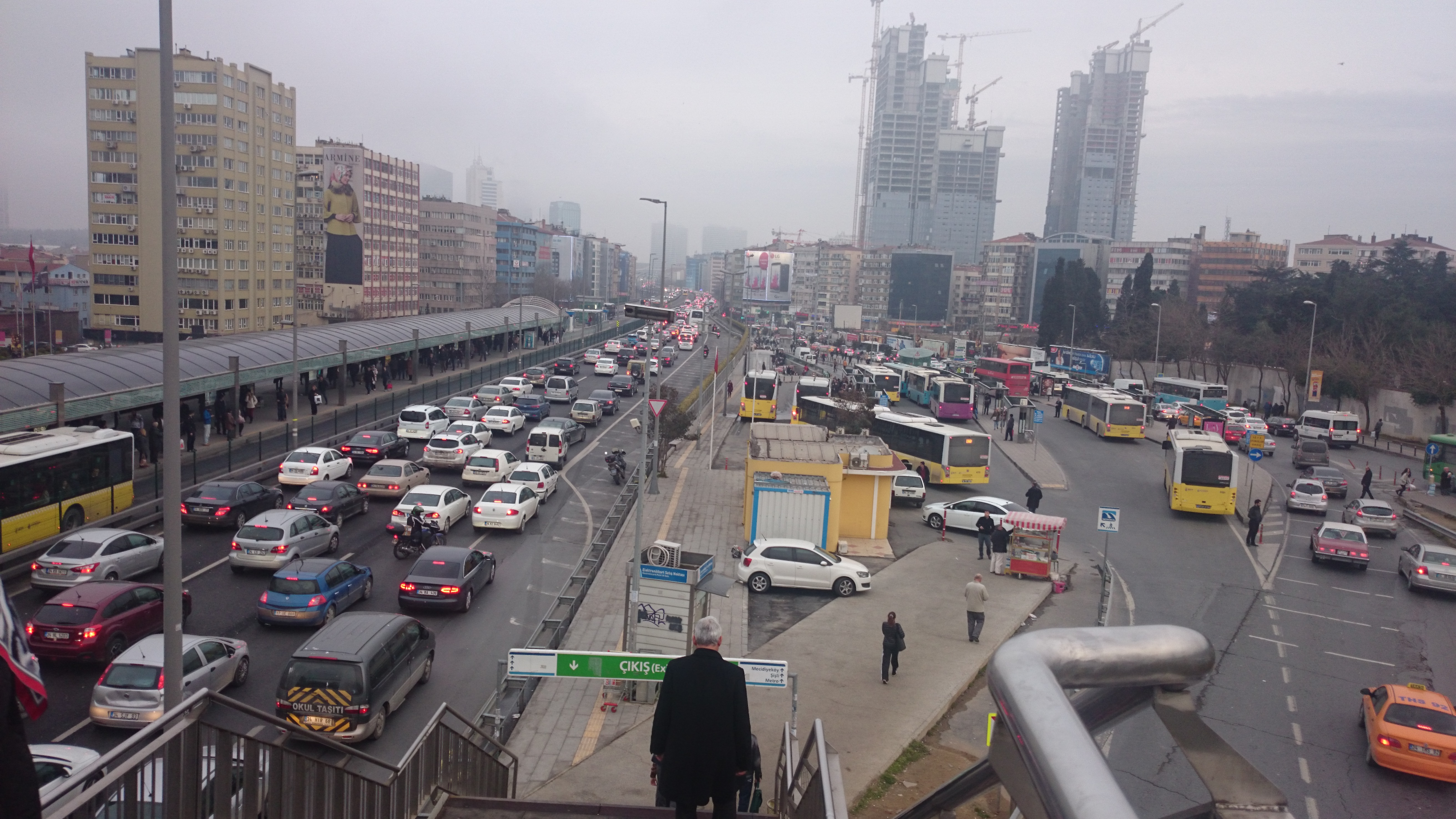 view from Mecidiyeköy where is district of Istanbul